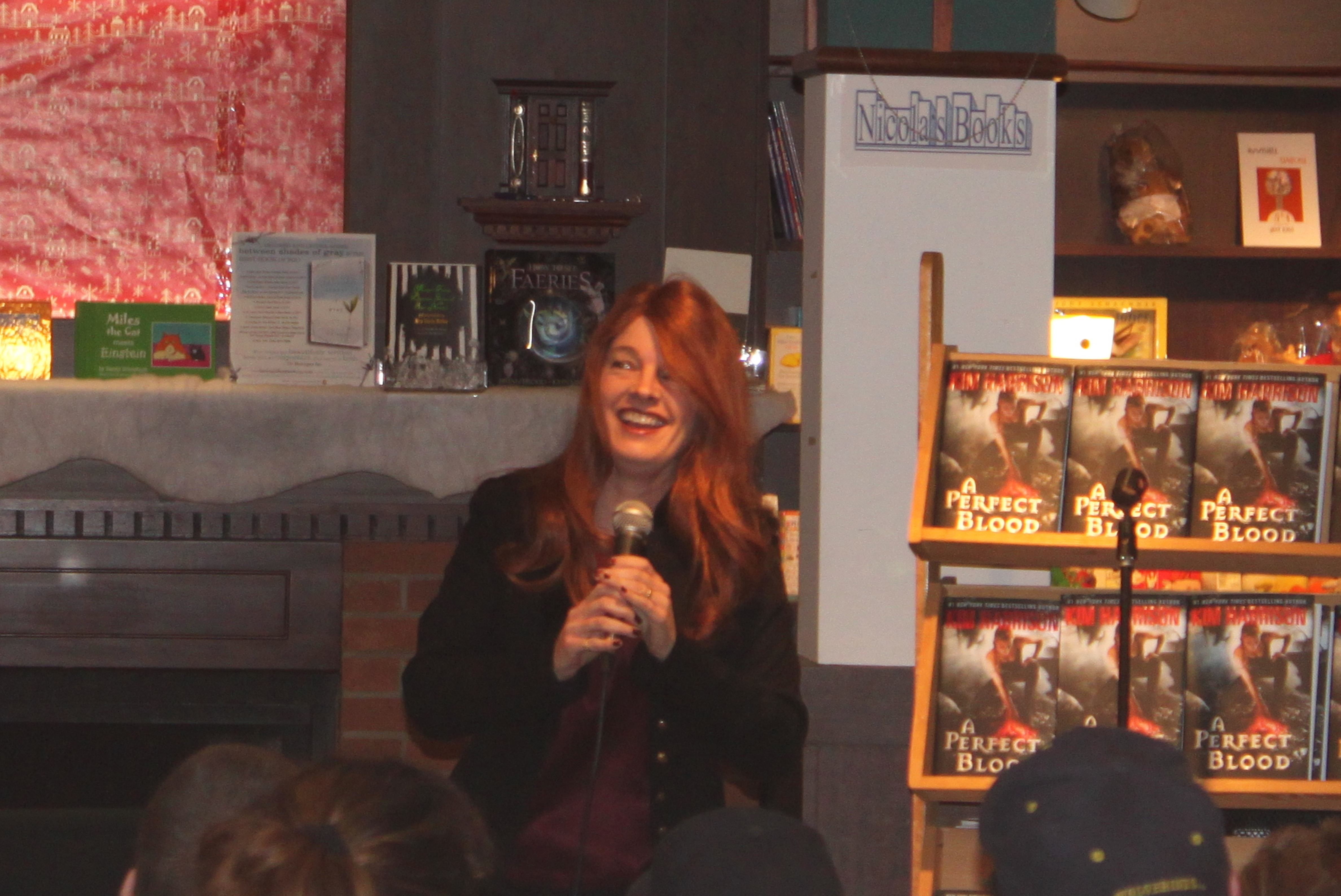 Author Kim Harrison (pen name for Dawn Cook) answering a question during the question and answer period at a book signing event for her novel A Perfect Blood.